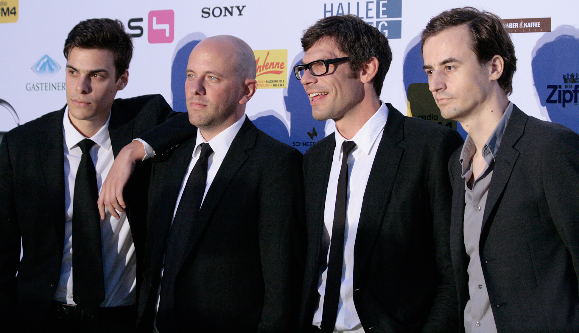 Kreisky at the Amadeus Austrian Music Award (Museumsquartier, Vienna)